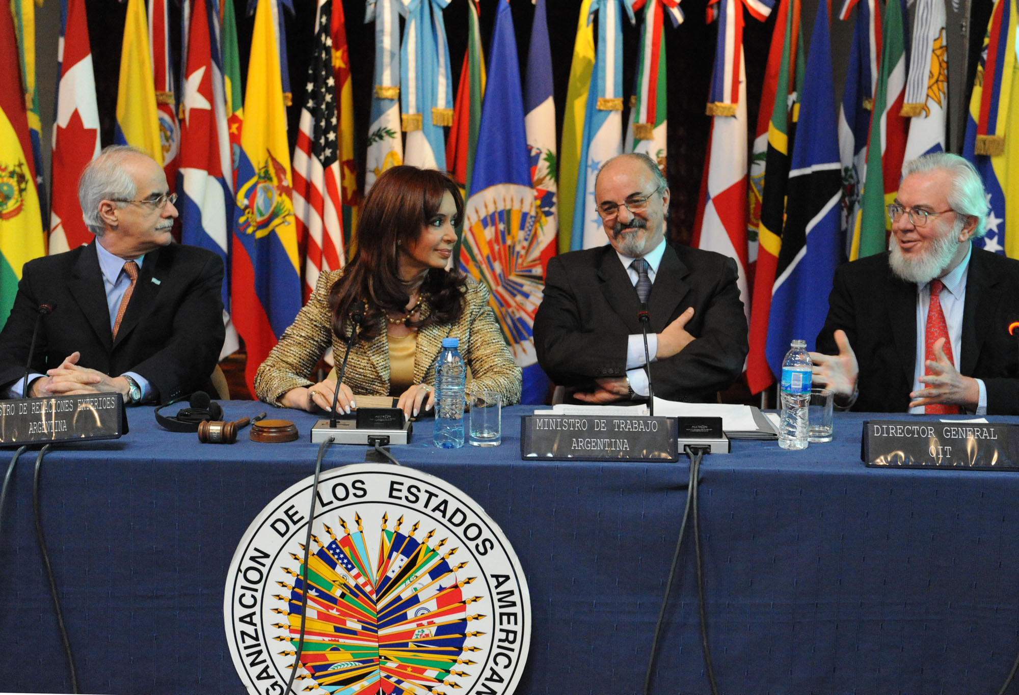 XVI Inter-American Conference of Labor Ministers (IACLB) of the OAS at Buenos Aires. From left to right: Jorge Taiana (Foreign Min. of Argentina), Cristina Fernández de Kirchner (President of Argentina), Carlos Tomada (Labor Min. of Argentina), Juan Somavía (ILO's General Director).